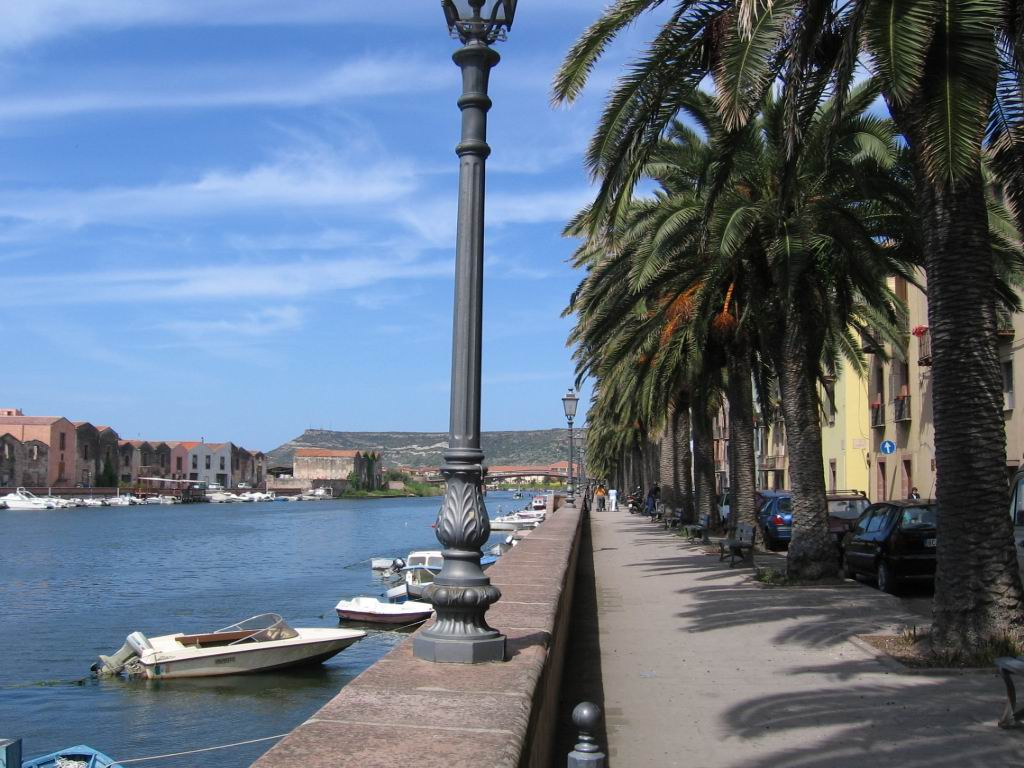 Bossa, Sardinia, Italy. Foto: Mihai Sorin Sirbu